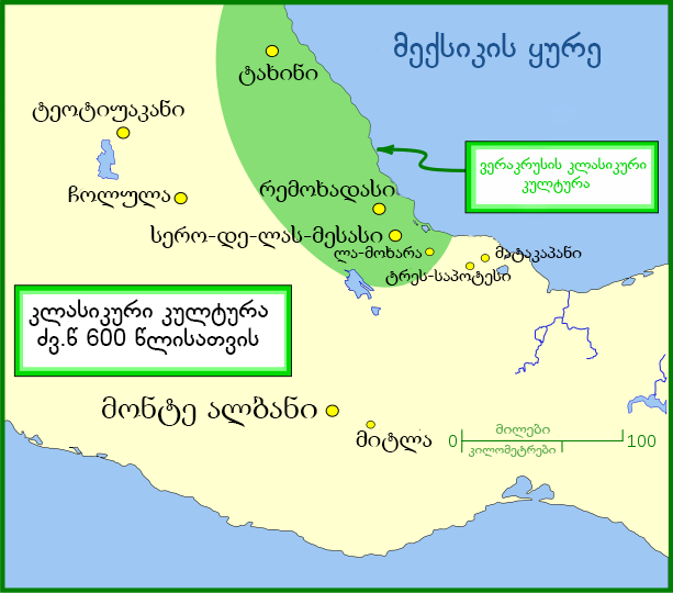 Classic Veracruz Era sites in western Mesoamerica (present day western Mexico)